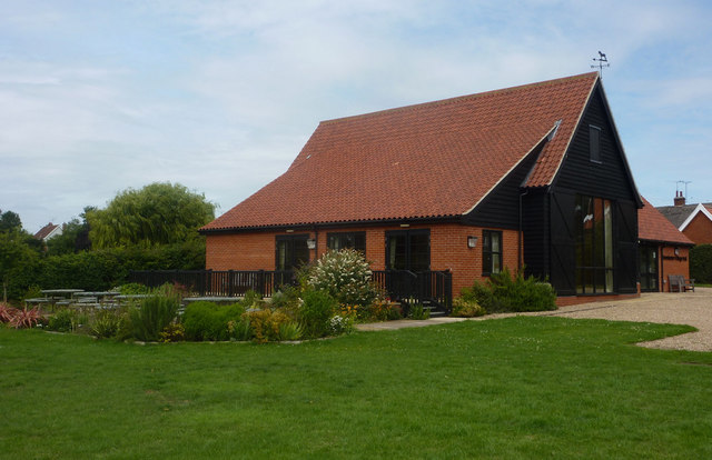 Village hall, Brandeston A large modern village hall.